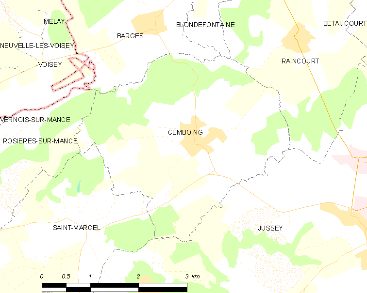 Map of French municipality